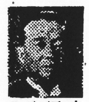 Wang Mo (1895 - ?)